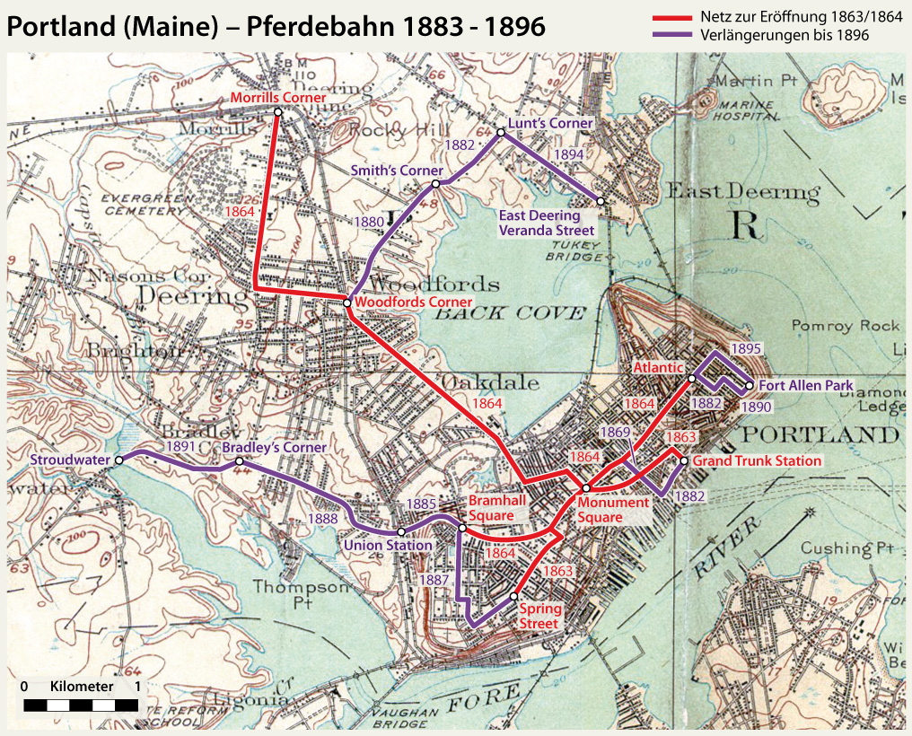 Routes of the Portland, Maine horse rail system 1883-1896 on a 1916 background map from the USGS